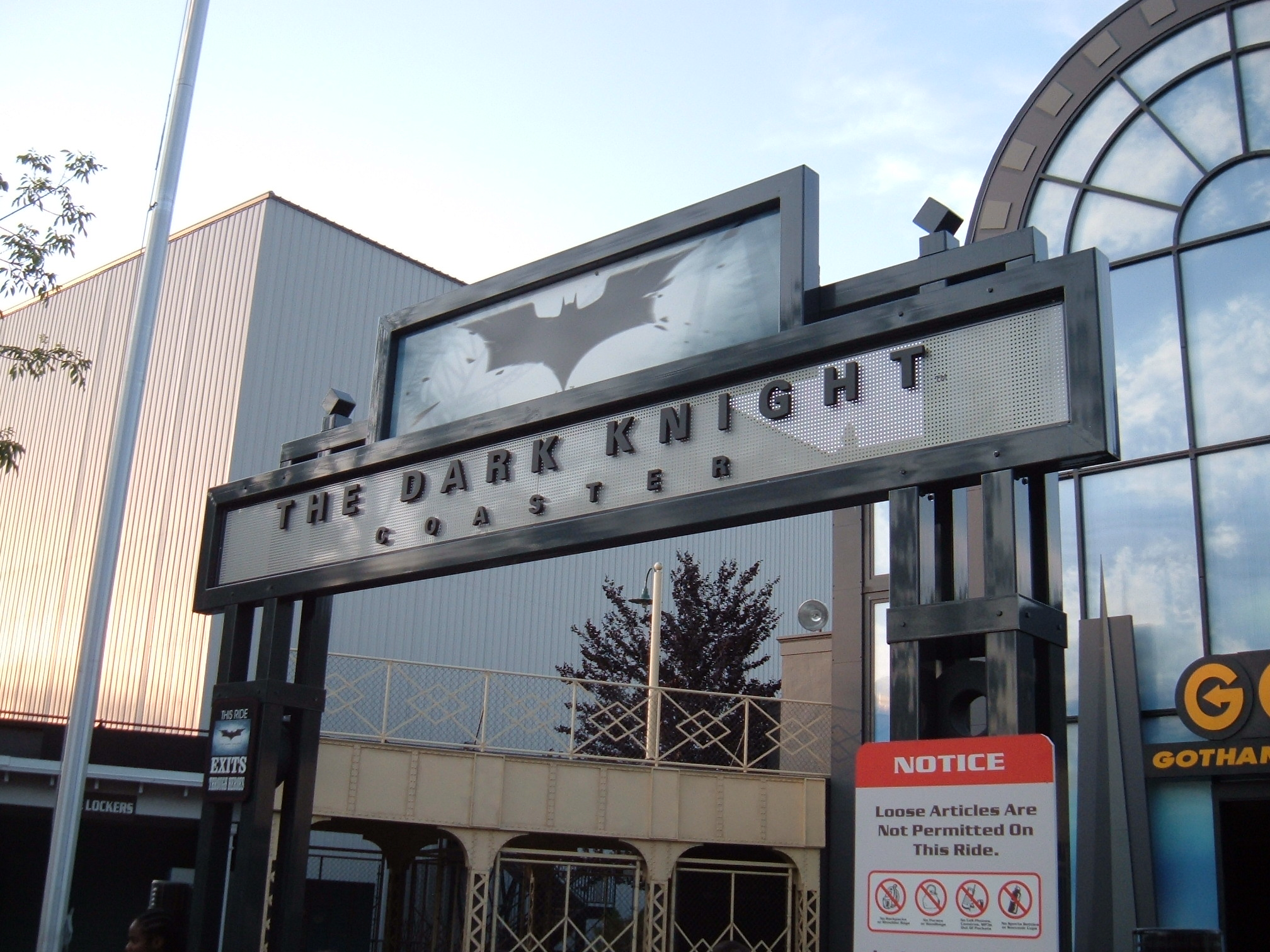 This is the entrance to the Dark Knight Coaster at Six Flags Great America.